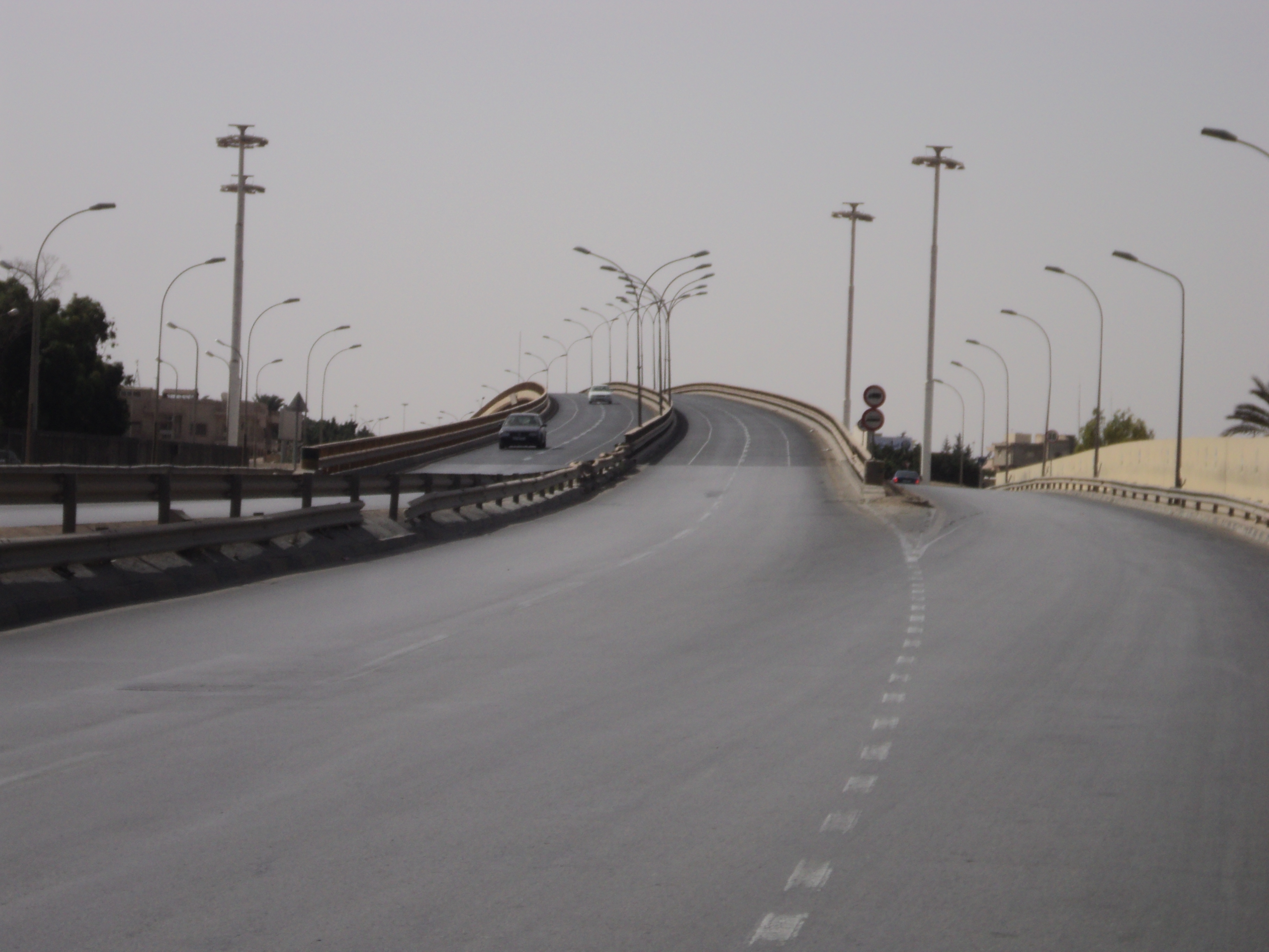 Tripoli (Mohammed Ed Durra) bridge, Benghazi-Libya.